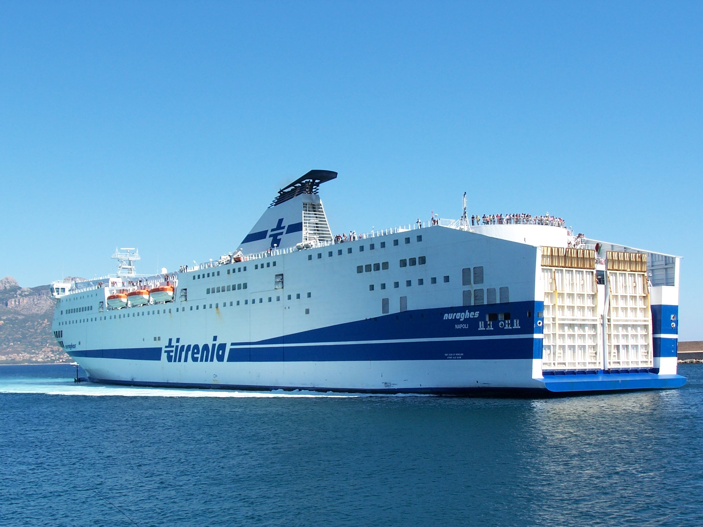 M/S Nuraghes arriving in Arbatax harbour